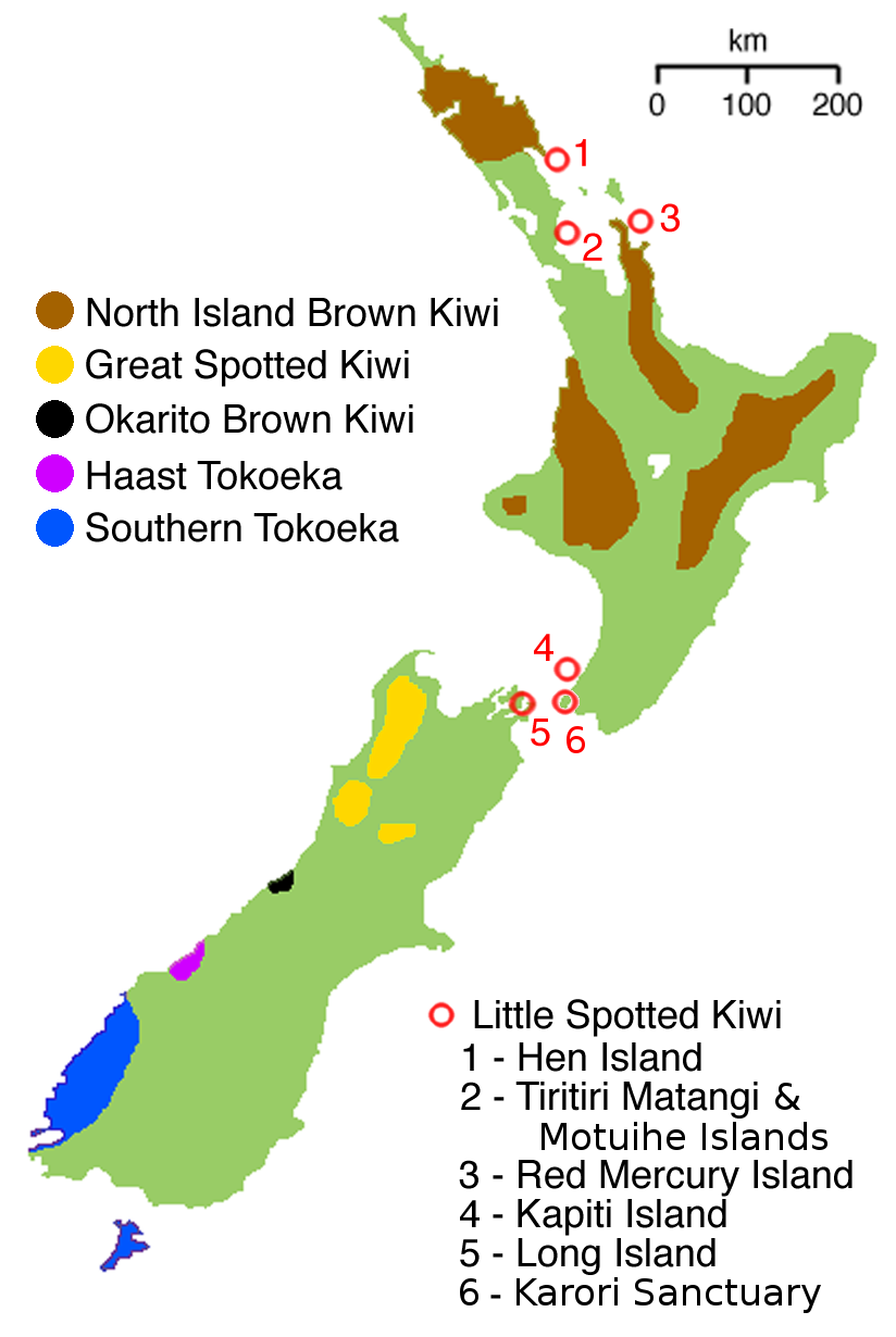 Map showing distribution of kiwi, to replace possibly unfree Image:KiwiMap.jpg Apteryx mantelli (Brown) Apteryx haastii (Yellow) Apteryx rowi (Black) Apteryx australis australis (Fuchsia) Apteryx australis ? (Blue) Apteryx owenii (Red circle)